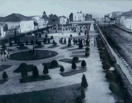 Visconde de Arantes Square in 1927, in Andrelândia, Minas Gerais, Brazil.